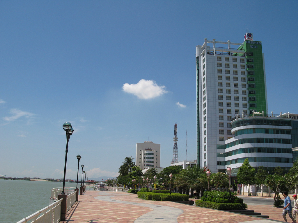 Boardwalk along Bach Dang Street, Da Nang, in front of the Green Plaza Hotel. At left is the Han River.